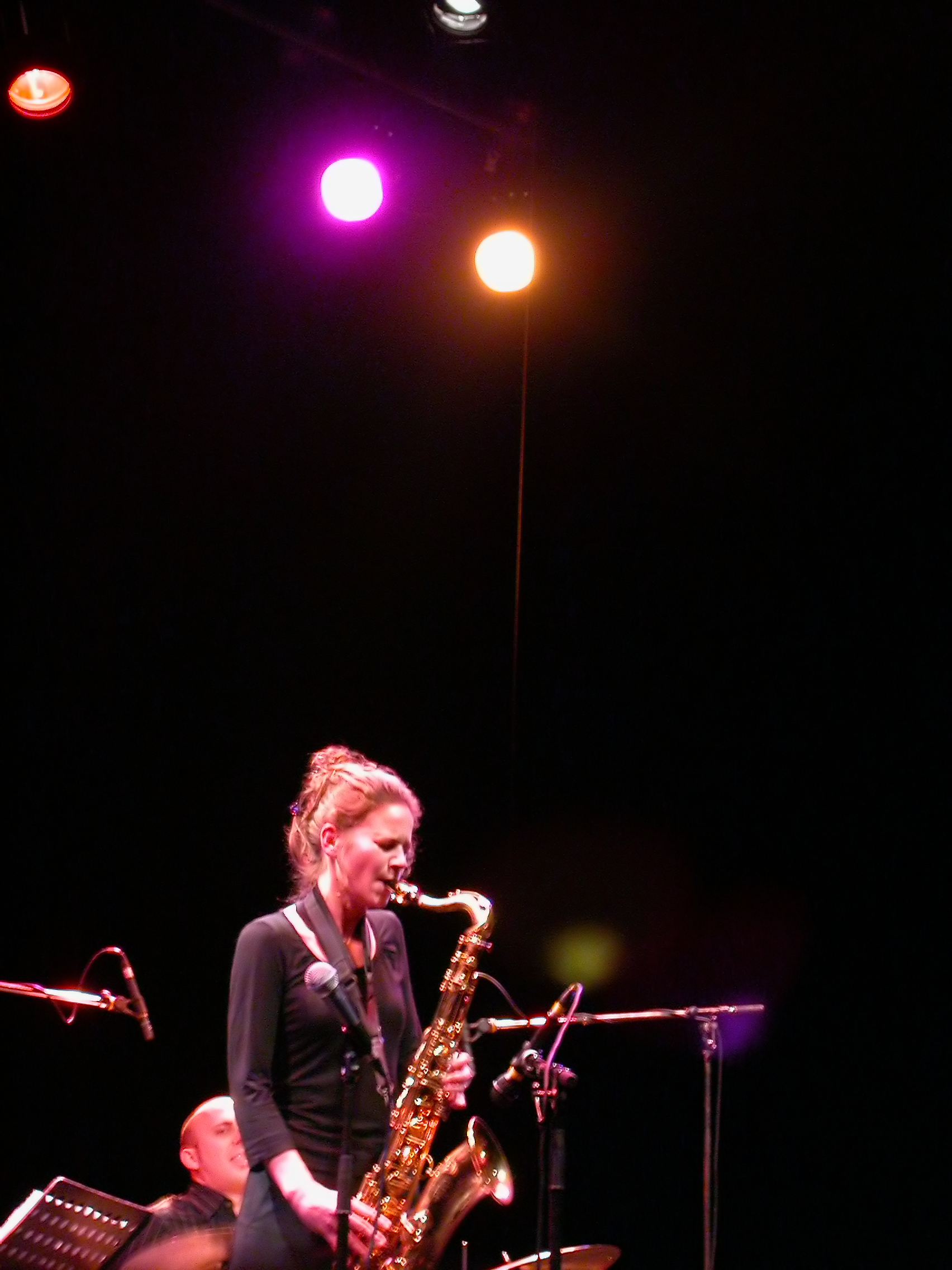 Révélation Jazz à Juan, Juan-les-Pins (France)